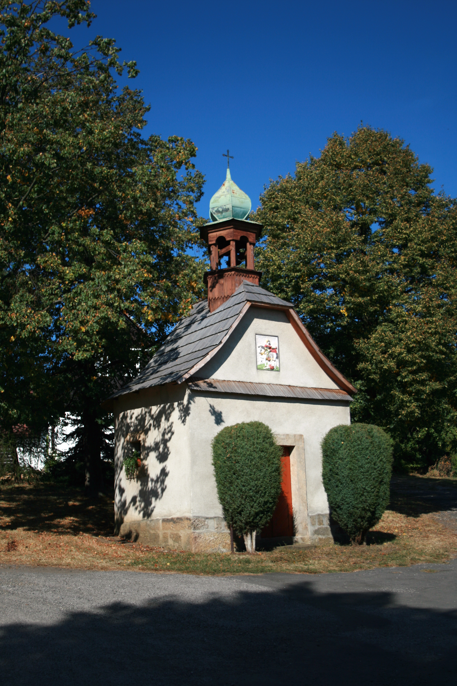 Chappel in village Úhlejov, East Bohemia, Czech Republic